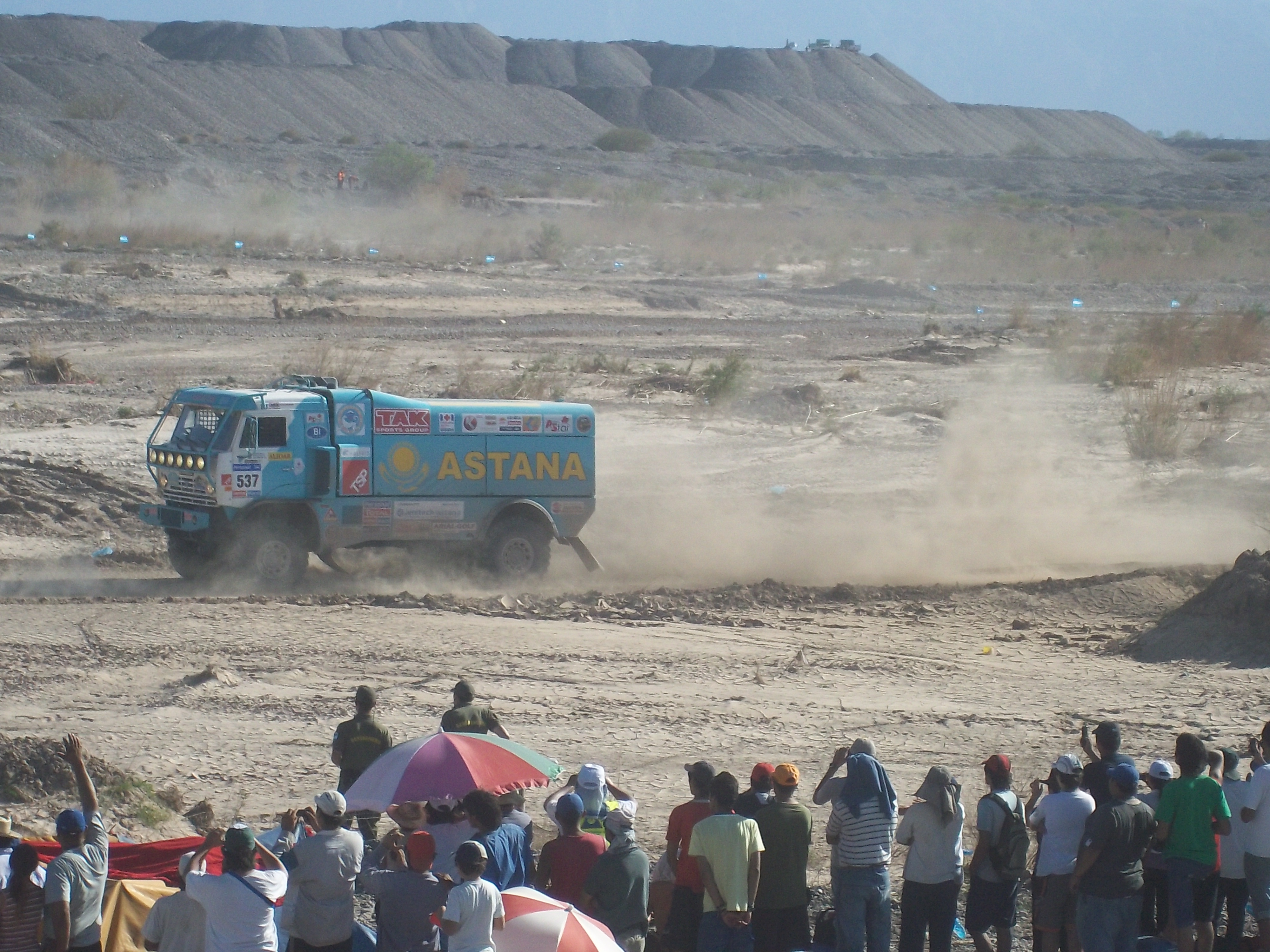 Racing no. 537 Kamaz truck driven by Artur Ardavichus during 11th stage of 2011 Dakar Rally